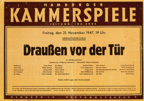 Poster for "Draußen vor der Tür" of Wolfgang Borchert 1947